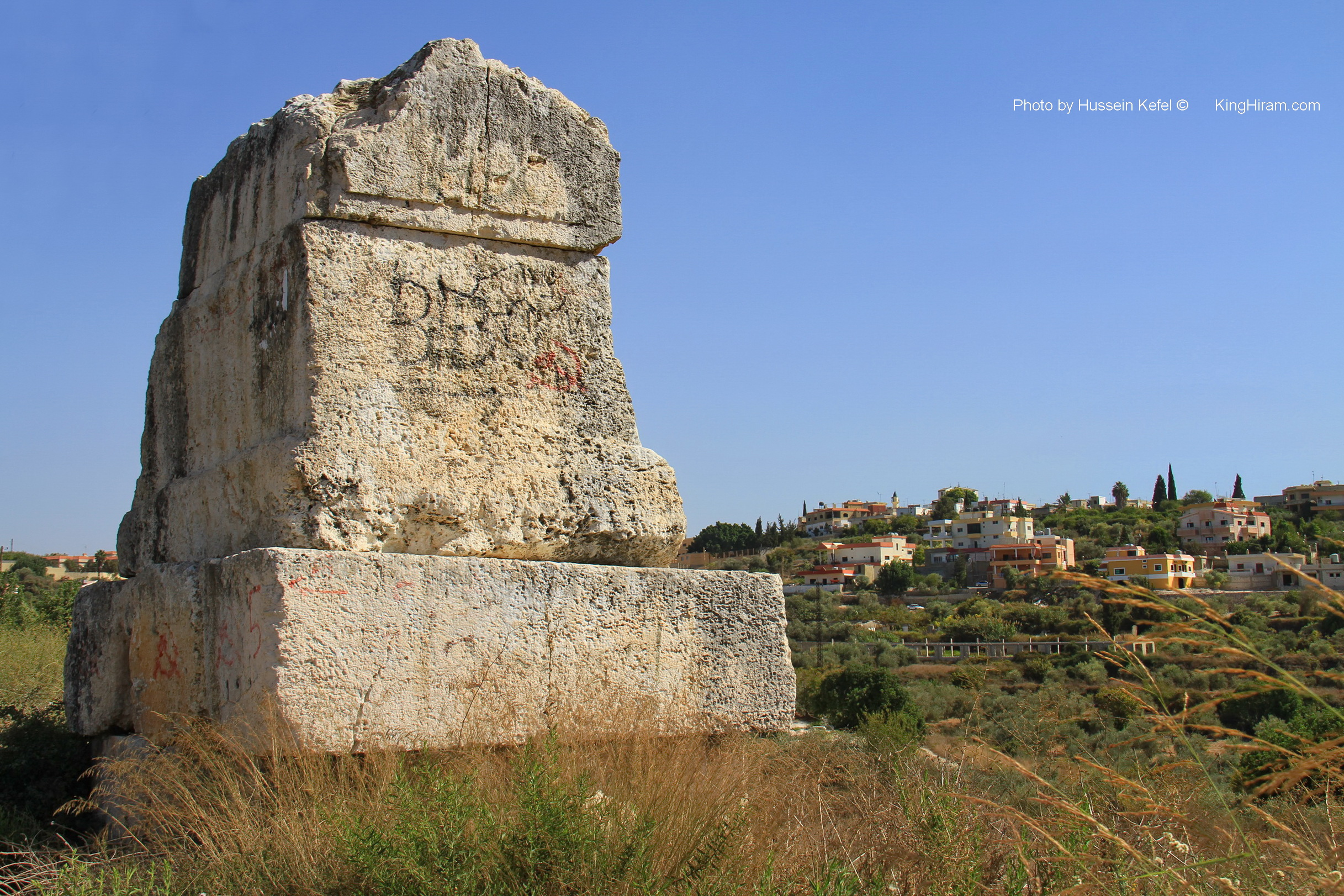 The Tomb Of The Great Phoenician King Of Tyre The Tomb is located in Hanawai (Hanawiya or Hanawey) Village in South Lebanon The name of the village is derived from John The Baptist, and till this day there is a sacred square standing place of Prophet John The Baptist well preserved in the heart of the village. Hanawai village is a direct neighbour to Cana The Galilee where Prophet Jesus and Disciples took shelter in the cave. Learn more about Hanawai village by visiting Learn more about Jesus in Cana The Galilee visit Known also as "Huram" and "Horam," Hiram was the king of Tyre in the time of King David and King Solomon. While he was politically allied with David, Hiram's workmen helped David's people to build David's palace in Jerusalem, and then after Solomon succeeded his father David as King of The Israelites, Hiram's workers also participated in the building of the first Temple. Much of the fine cedar for both the palace and Temple came from Tyre Lebanon. Read more by visiting this Website